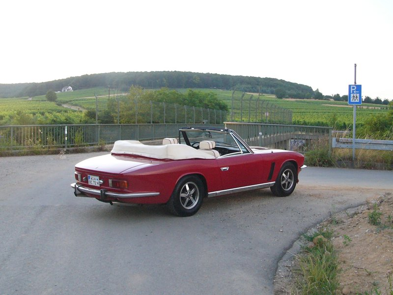 Jensen Interceptor III Convertible (1974)